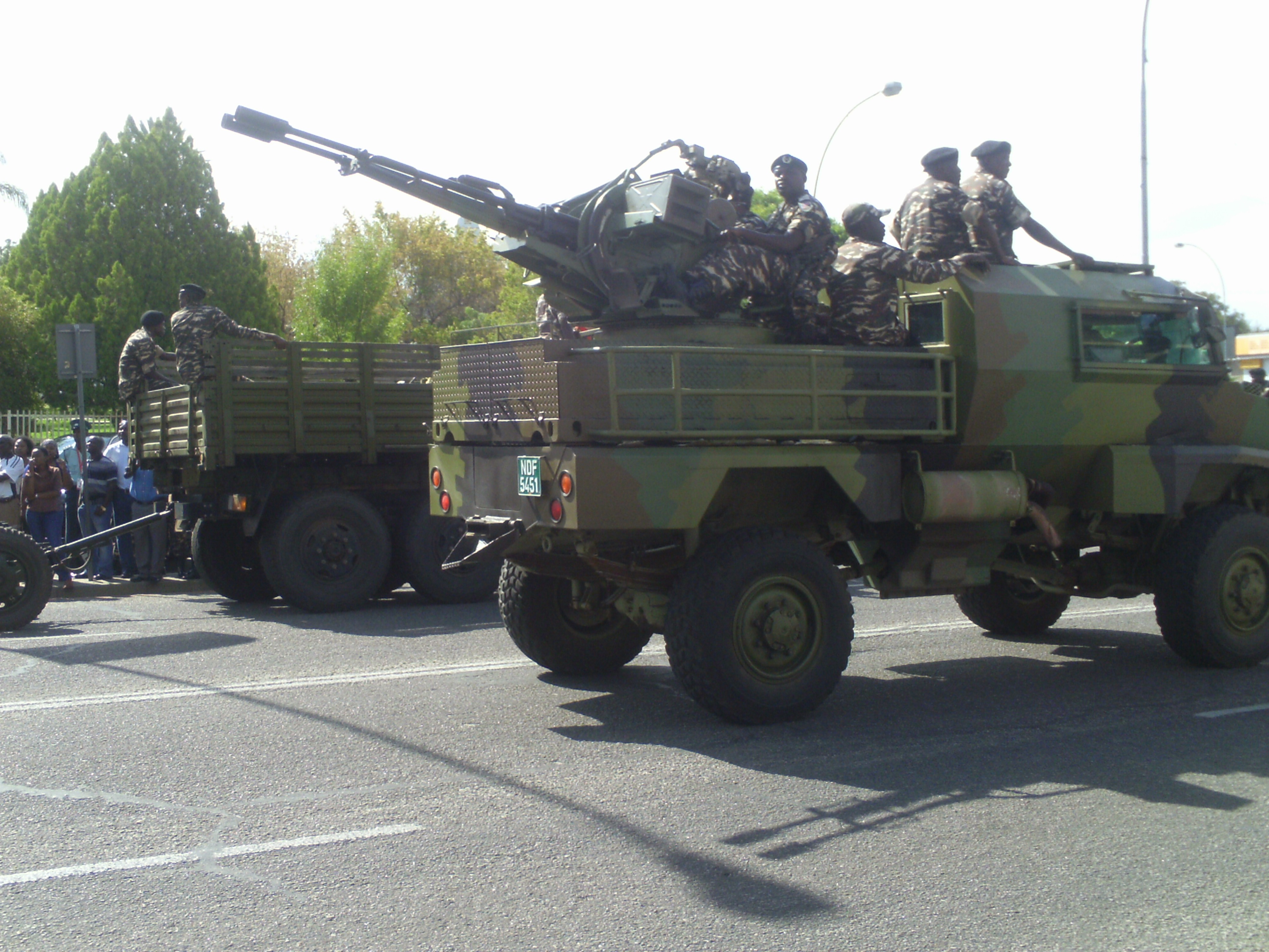 Namibian Army Wolf armed with Air Defence cannon